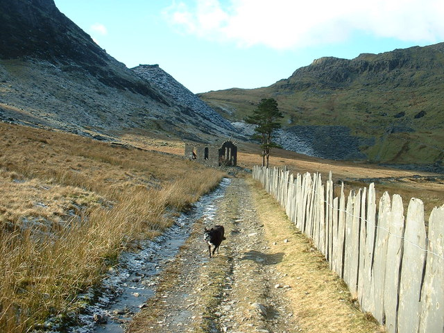 Old quarry track Leading to Rhosydd Quarry [1] at Bwlch Cwmorthin, whose spoil heaps are visible in the distance to the left of the tree. Note the slate fence, utilising the most abundant building material in the area. The slate waste to the right of the tree is from Conglog Slate Quarry, and the incline from the levels is to the right of that. The holes in the hillside above it are the tops of the level 'C' chambers.